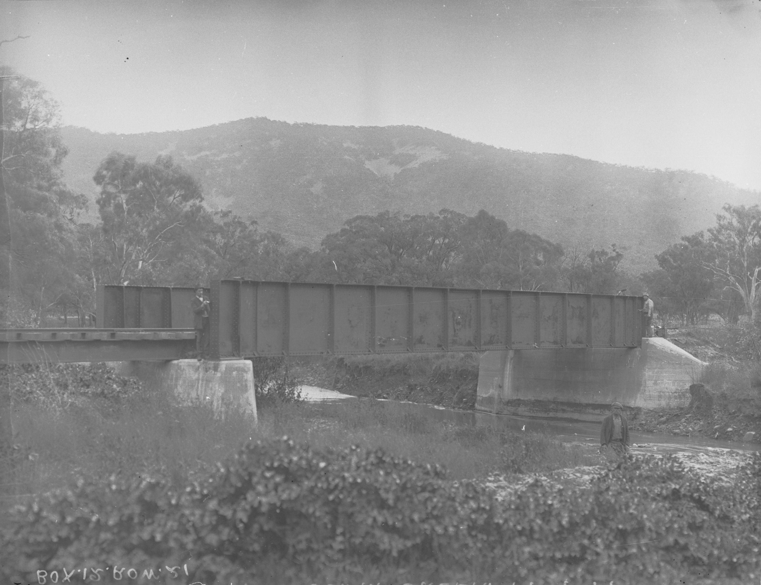 This bridge is made from wrought iron with concrete abutments holding the bridge up. Four workmen can be seen on or near the bridge. Willochra Creek is approximately 205 kilometres long and flows north from the town of Melrose through the Willochra Plain then north westerly until it discharges into Lake Torrens.